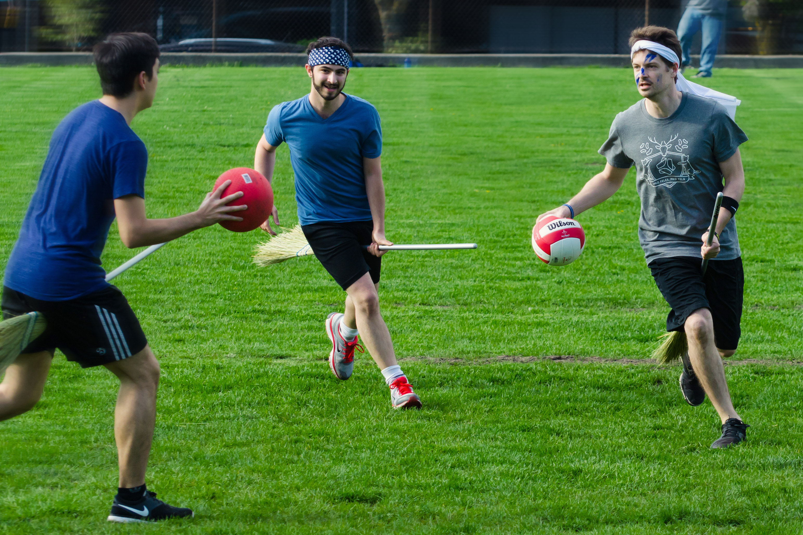 Amateurs Muggle Quidditch match held between Mobify and Hootsuite companies in Jonathan Rogers Park Vancouver, BC on May 6, 2014 Red ball represents Bludger and white one is a Quaffle